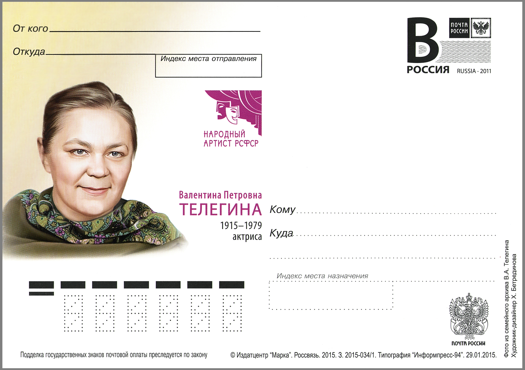 Valentina Petrovna Telegina (1915—1979), a Soviet theatre and cinema actress. The postal stationery card with the imprinted definitive non-denominated stamp “Letter B”, Russia, 12 February 2015, PTC Marka Catalogue No. 2015-034/1. Coated paper. Offset printing. Size of the postal card: 105×148 mm. Print run: 5,000 The photo portrait of Valentina Telegina from the family archive of V. A. Telegin.